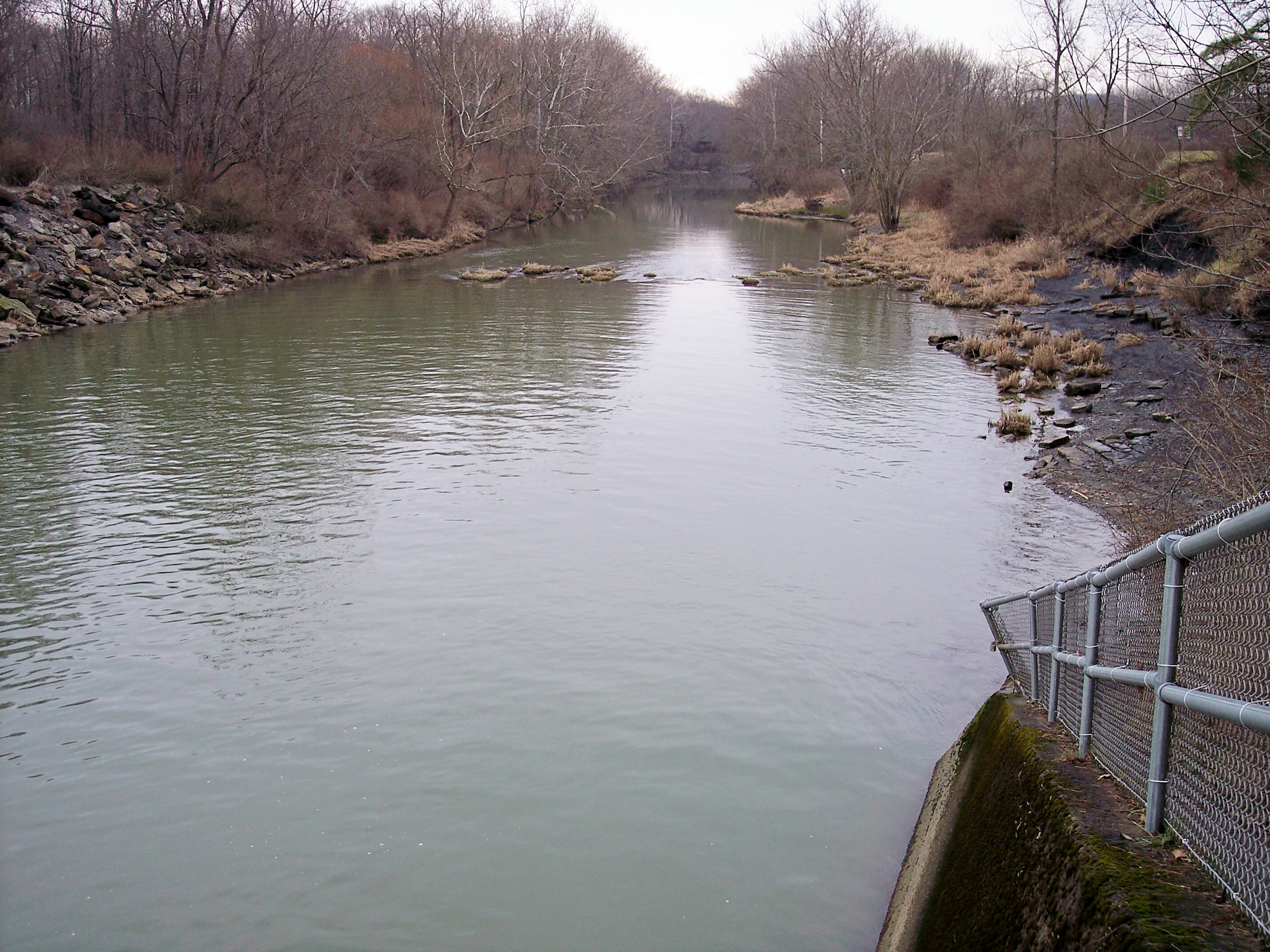 Sugar Creek in northwestern Tuscarawas County, Ohio, immediately downstream of Beach City Dam